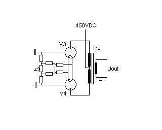 Directly heated power triode amp